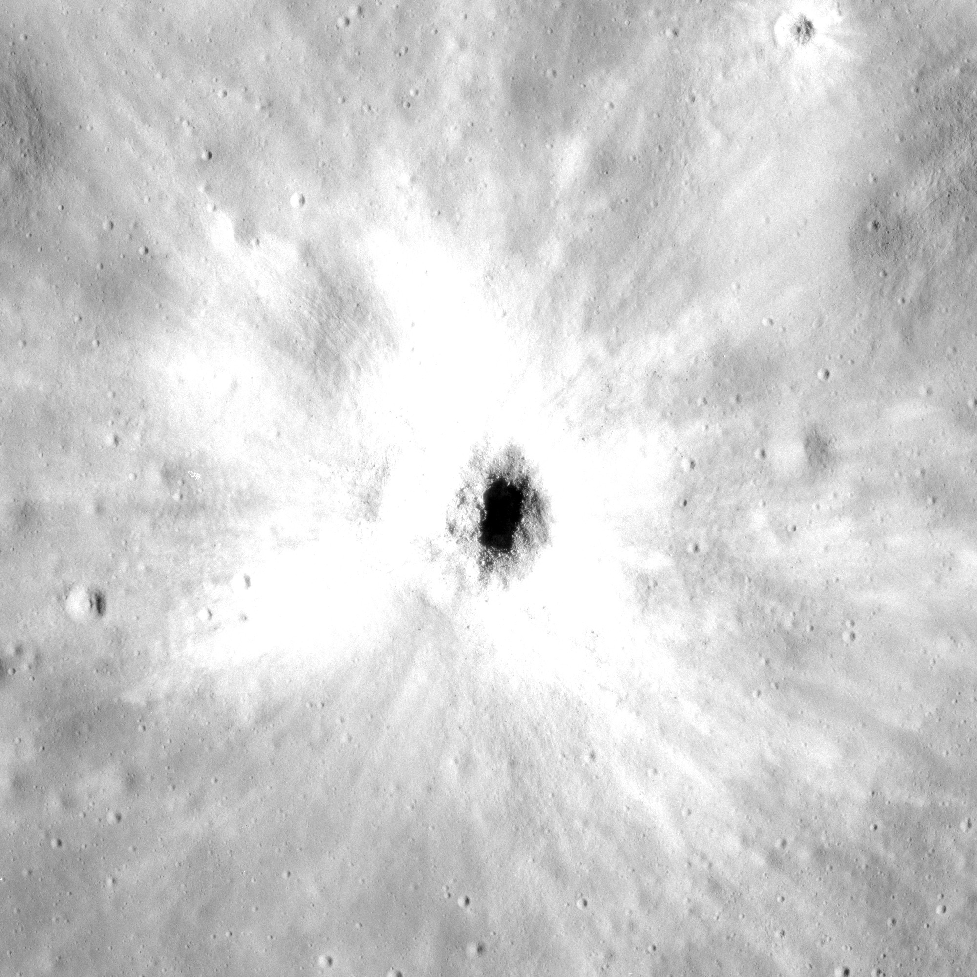 South Ray crater, on the moon. Baby Ray crater is in upper right. Sun elevation 27 deg., spacecraft altitude 114 km.